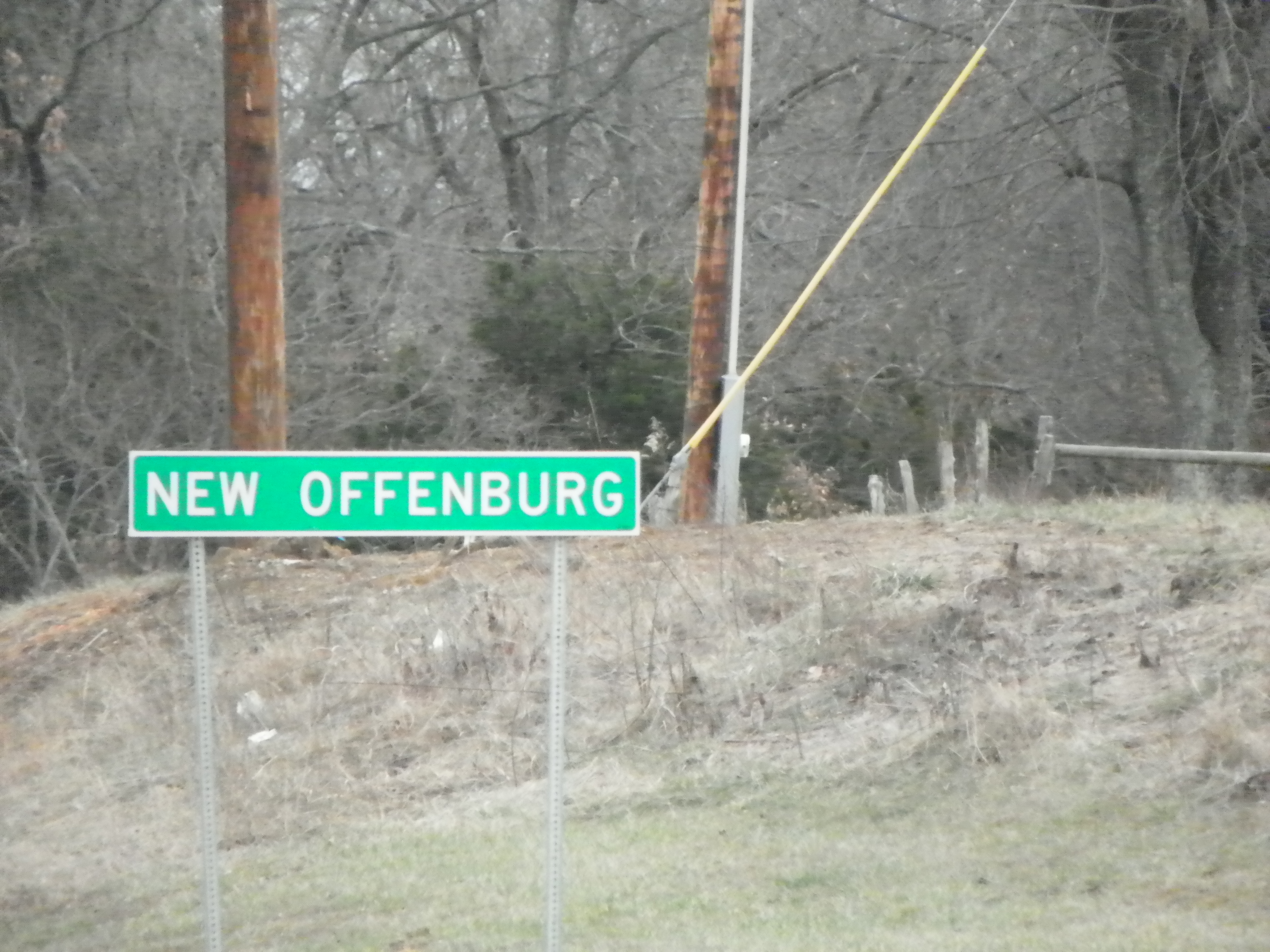 New Offenburg, Missouri, town sign from route 32